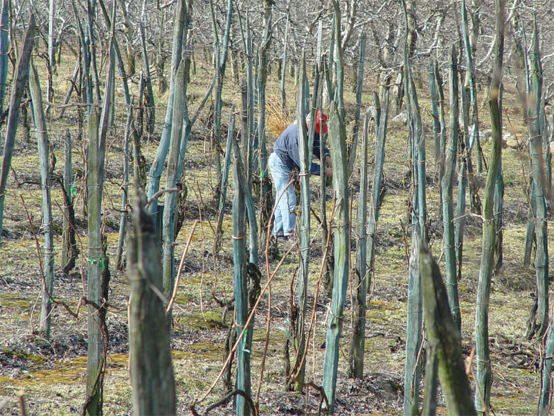 Farmer taking care of a vineyard in Valtellina (Italy). Clearly visible in the picture is the long 5 to 6ft stakes that each vine is trained to that is common in this part of northern Italy.